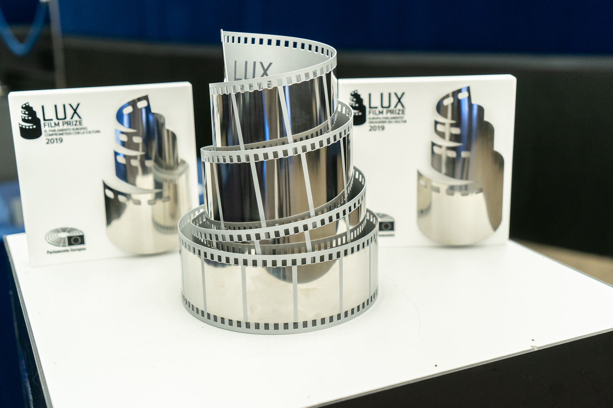 This photo is free to use under Creative Commons license CC-BY-4.0 and must be credited: "CC-BY-4.0: © European Union 2019 – Source: EP". No model release form if applicable. For bigger HR files please contact: webcom-flickr(AT)